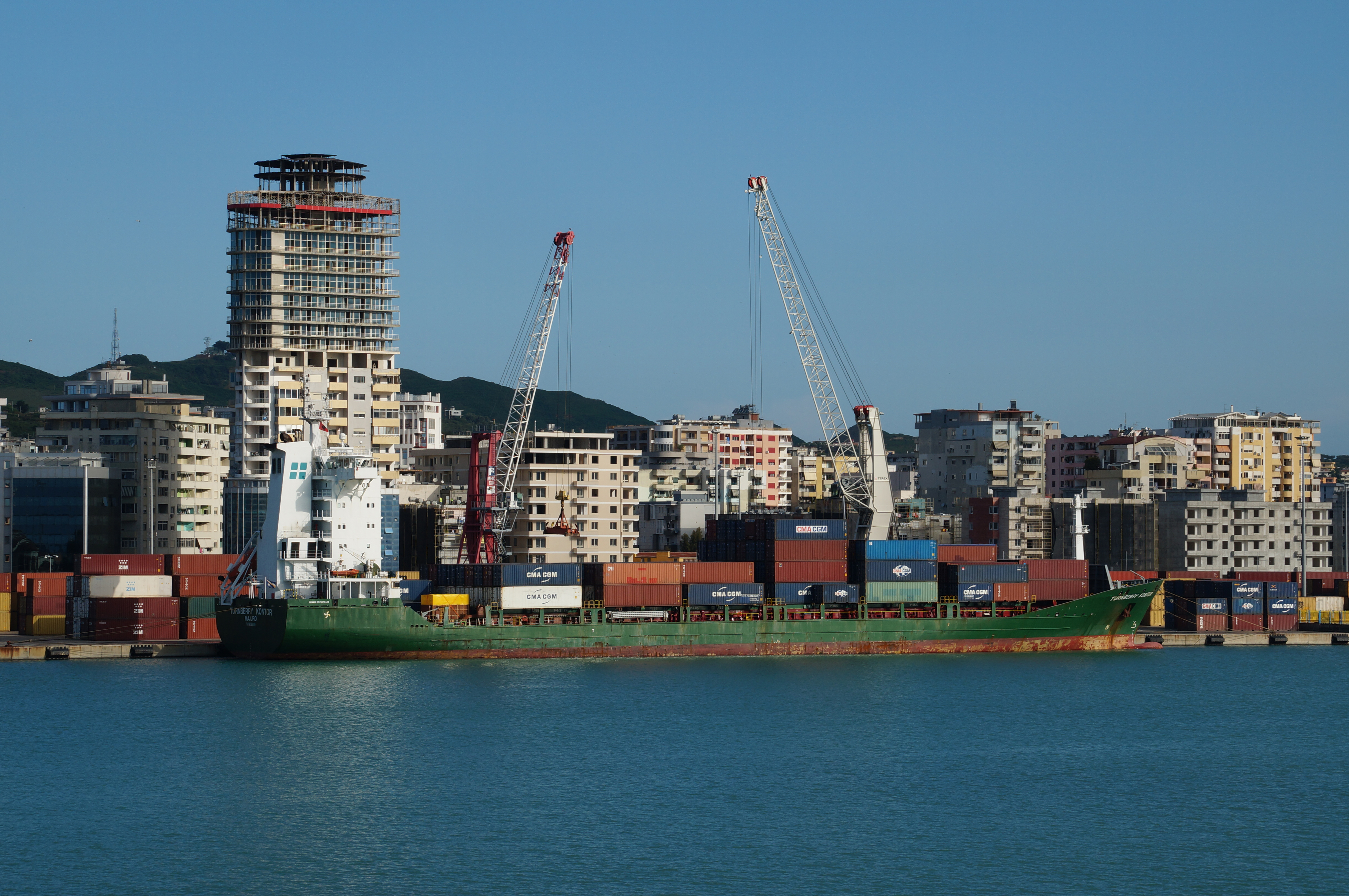 Container ship in Durrës harbor